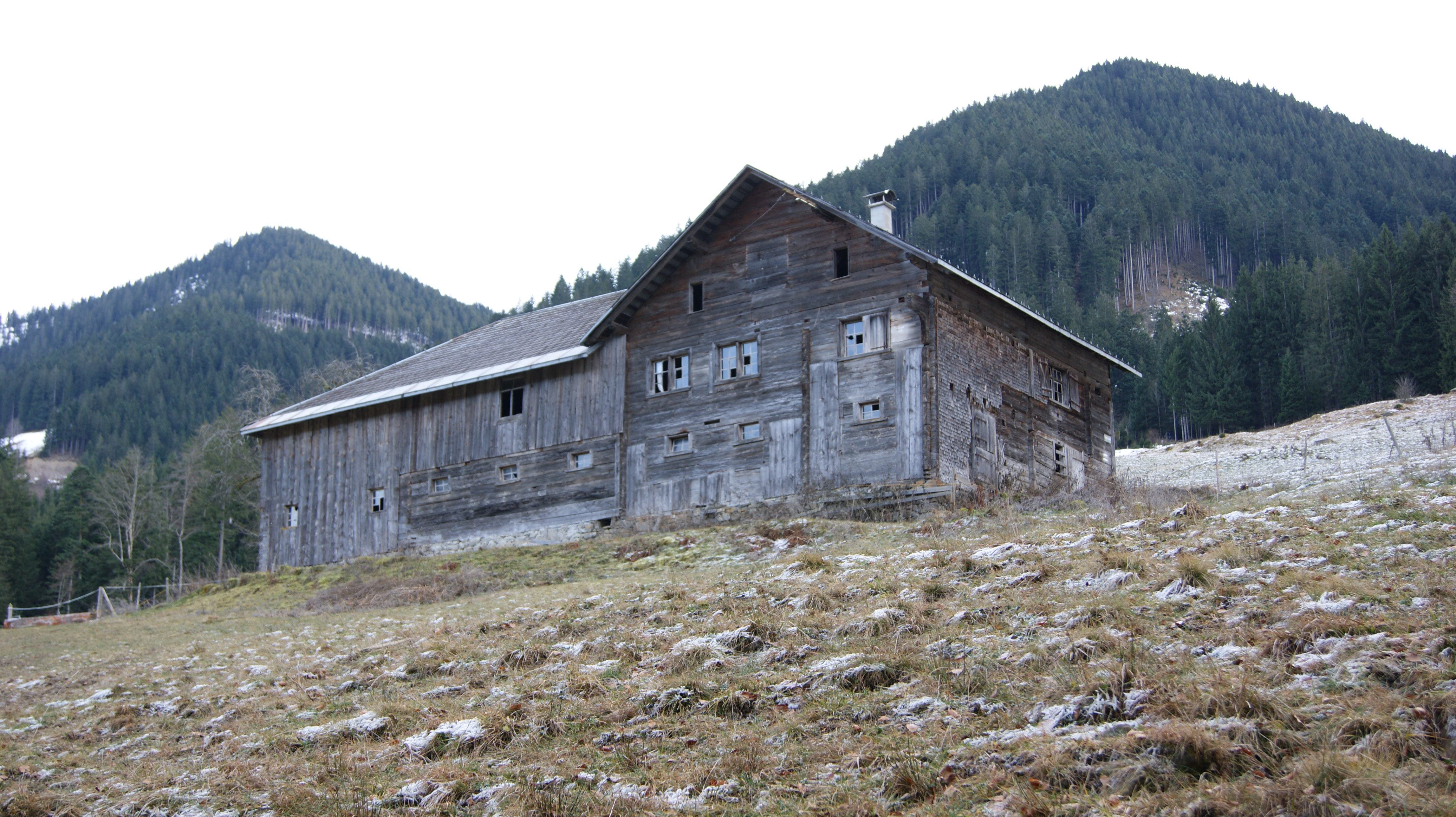 Alp "Christwald" in Laterns, Vorarlberg, Austria.